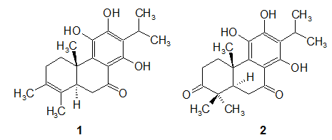 Salvia candelabrum compounds